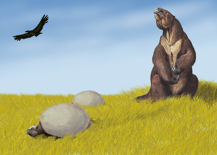 Pleistocene of South America, by myself, D. Bogdanov